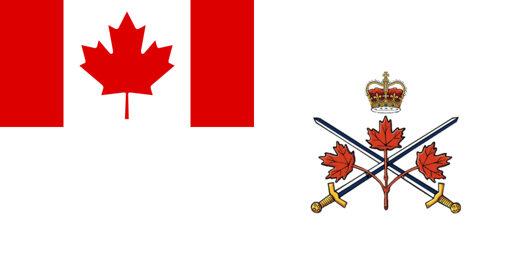 Flag of the Canadian Army from 2013 to 2016. As they were to replace the former Land Force Command Flag only upon wearing out, this flag was only produced in a limited number prior to replacement by the current Canadian Army Flag in 2016.